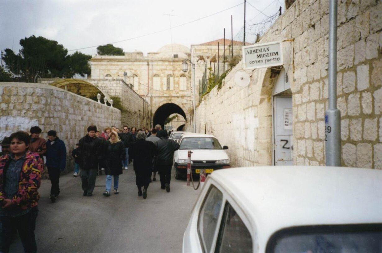 The street of Armenian Patriarchate